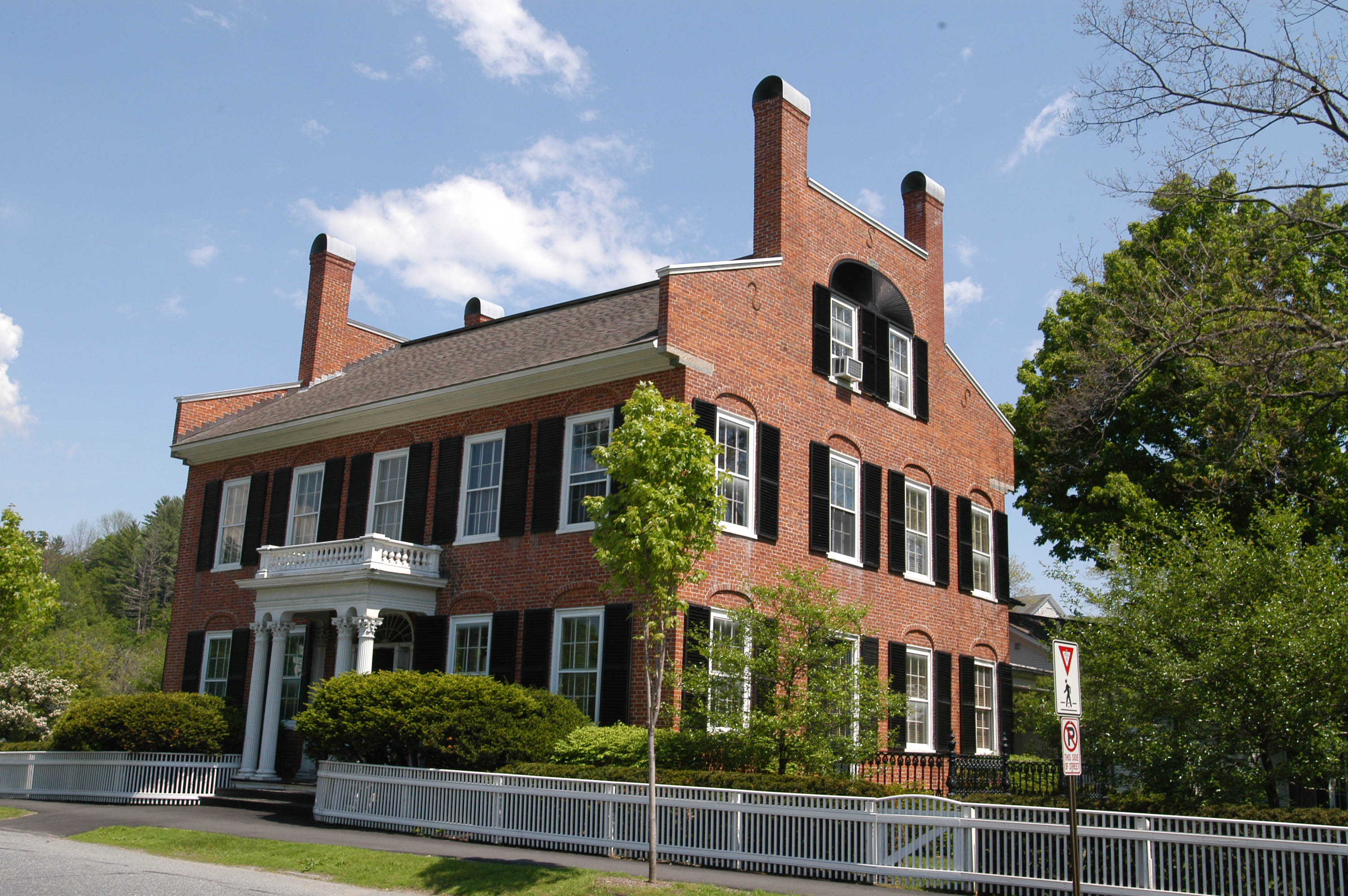 1823 GENERAL LYMAN MOWER HOUSE WHICH IS LOCATED ON THE GREEN WHICH IS THE DIRECT CENTER OF THE HISTORIC DISTRICT